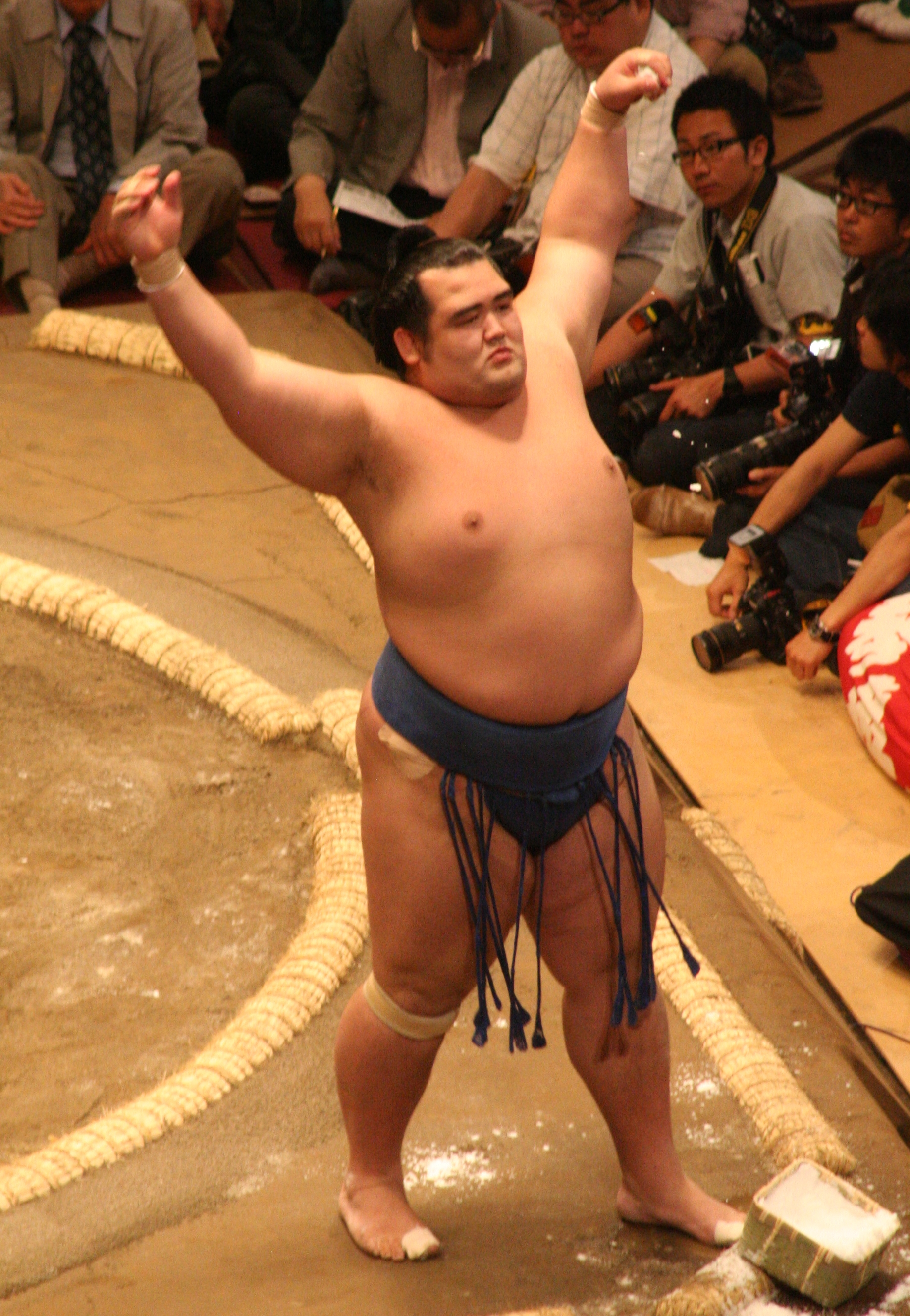 First day of 2009 May Sumo Tournament in Tokyo, Japan - Kotoshogiku